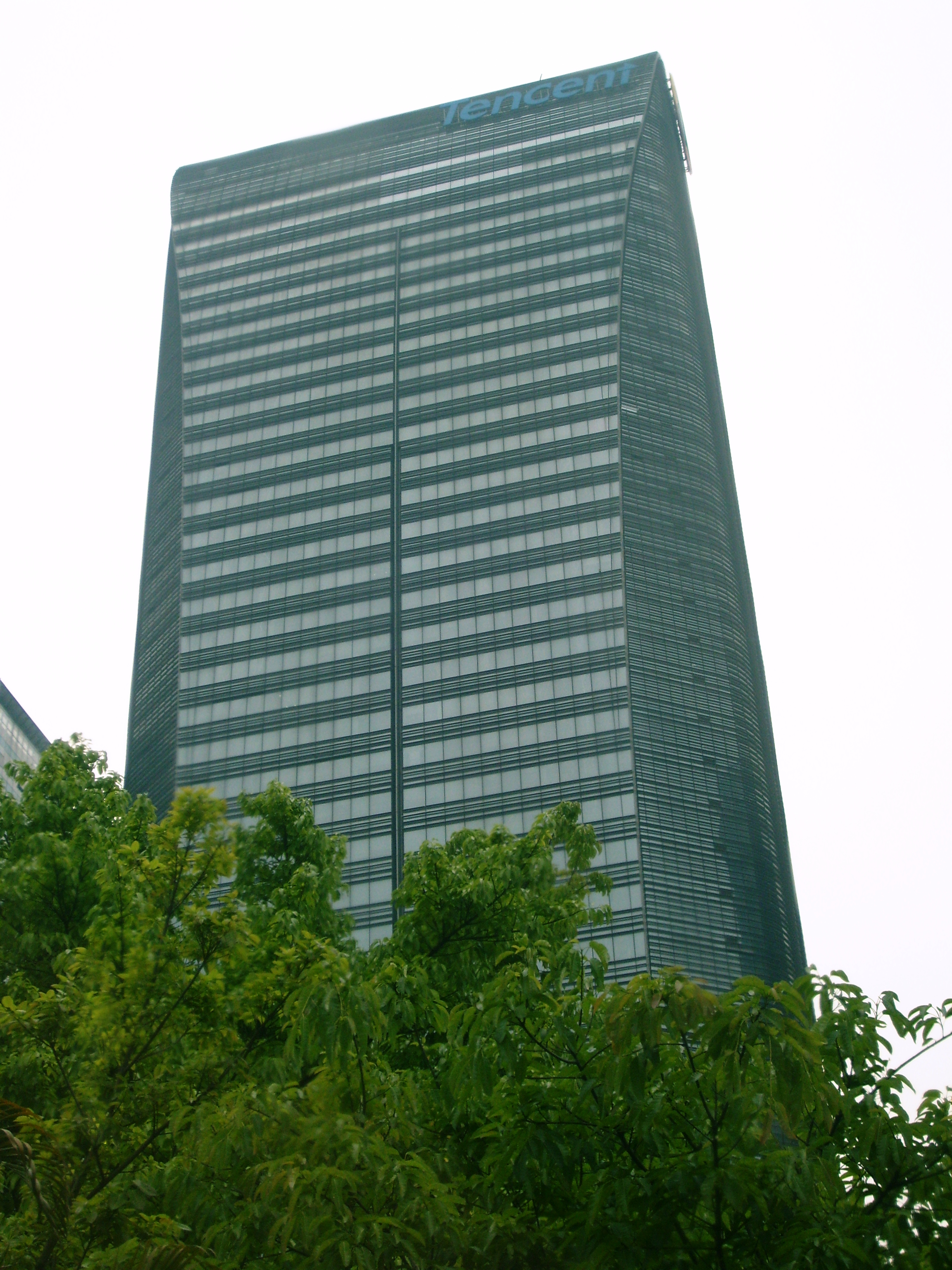 Tencent Building (S: 腾讯大厦, T: 騰訊大廈, P: Téng​xùn Dà​shà), Tencent headquarters - Kejizhongyi Avenue, Hi-techPark,Nanshan District,Shenzhen.